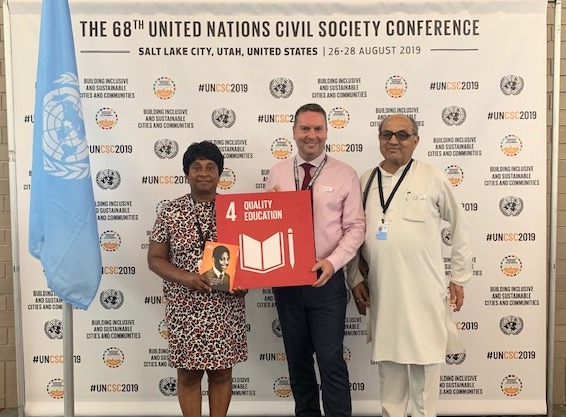 Shellard (centre) with The Baroness Lawrence and S.P. Varma at The 68th United Nations Civil Society Conference in August 2019